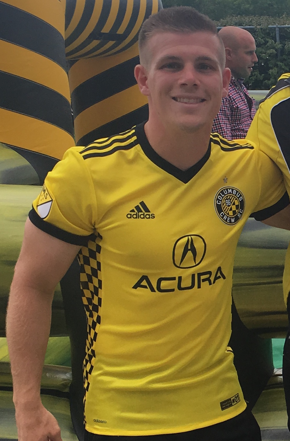 Picture of Connor Maloney at a Columbus Crew SC Meet the Team event in 2017.